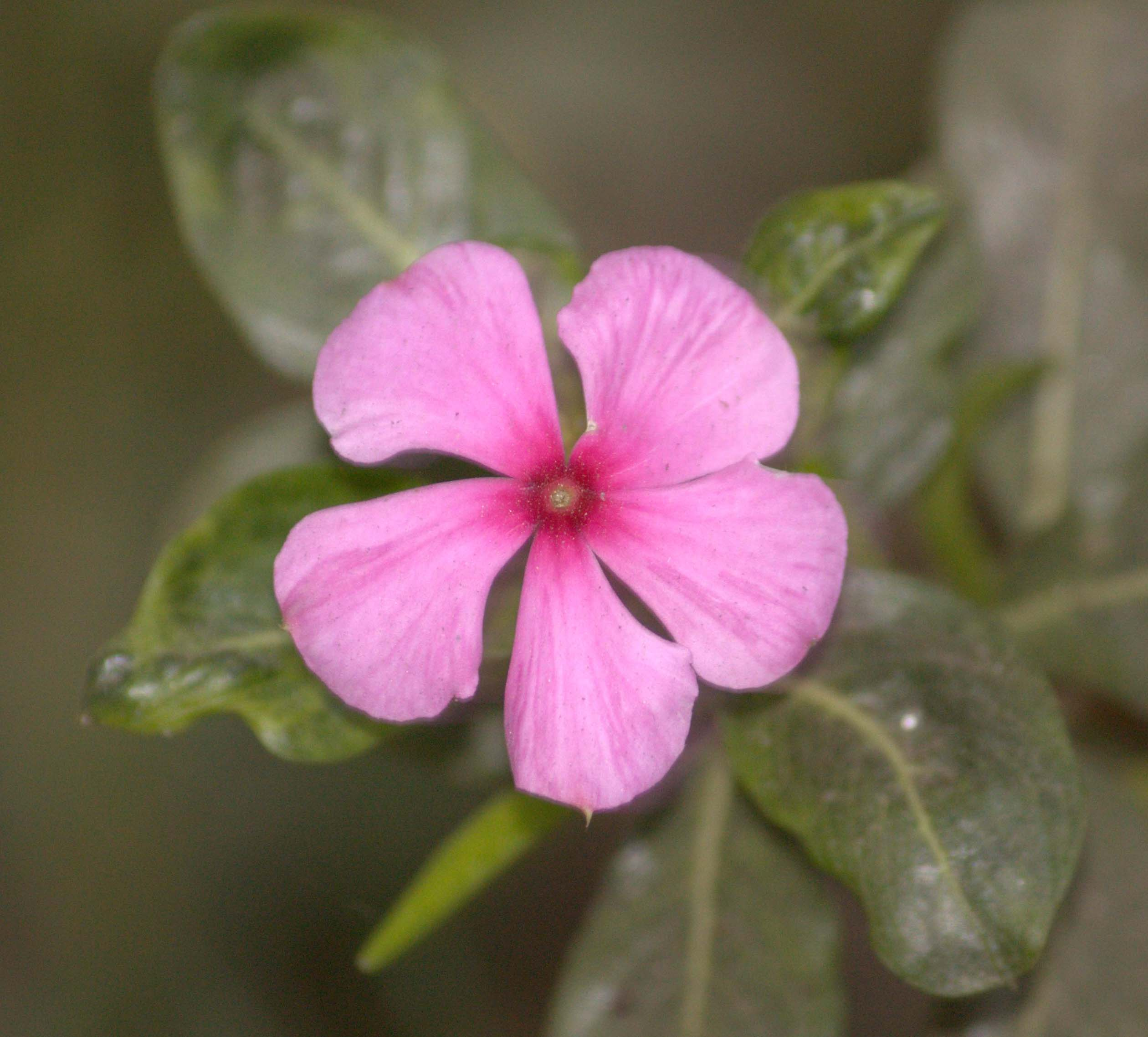 Catharanthus roseus, commonly known as Nayantara in India.